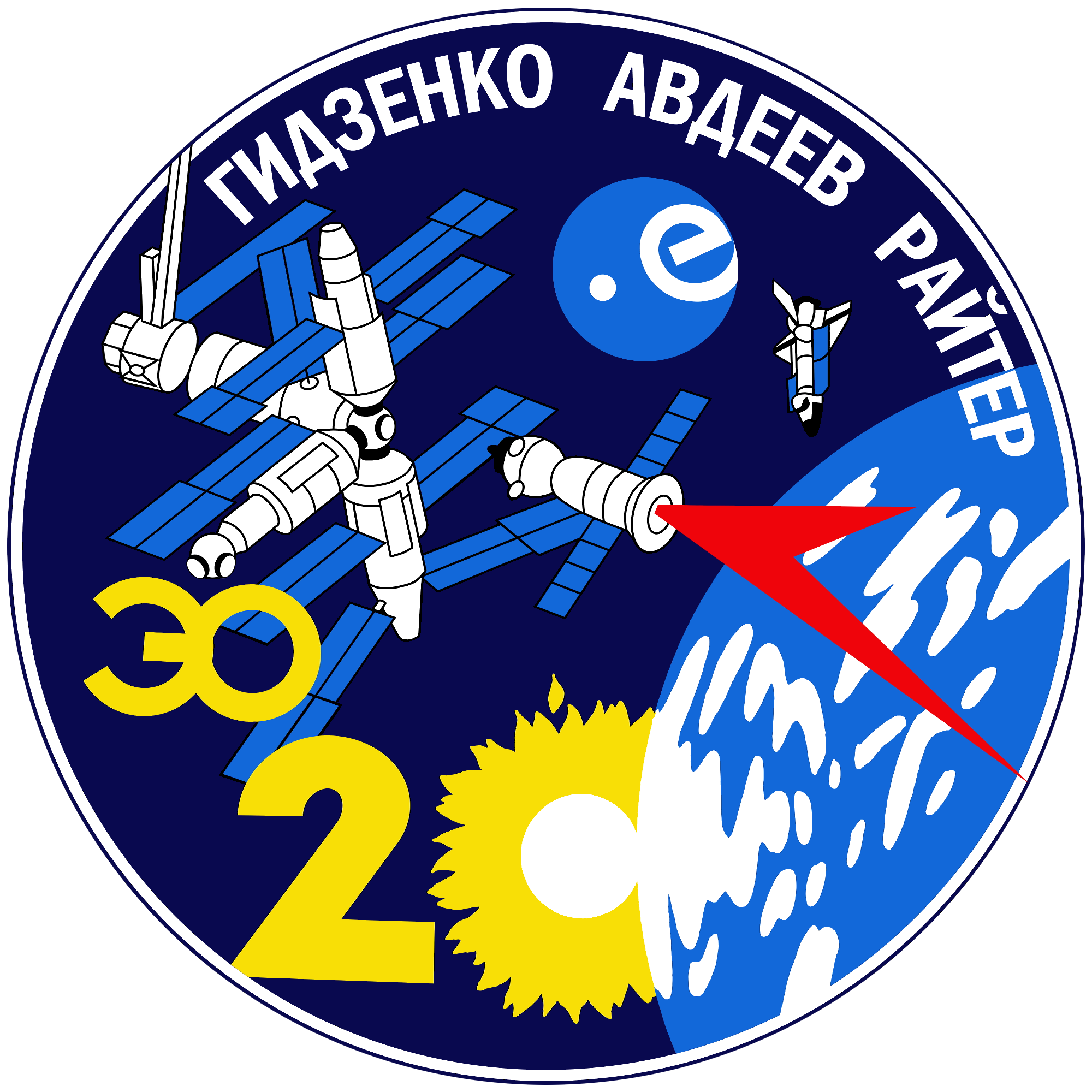 The official crew patch for the Russian Soyuz TM-22 mission, which delivered the EO-20 crew to the space station Mir. The patch was redrawn by Jorge Cartes (JCR).